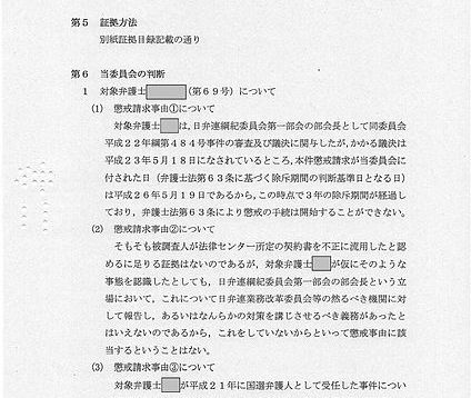 ”As for Article 63, no disciplinary procedures shall be initiated after the lapse of three years from the time the grounds for such action arose.” to a local Bar Association Disciplinary Enforcement Committee.